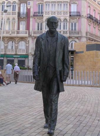 Statue of Nicolás Salmerón in Almería, Spain, made by Lourdes Umerez in 2005.